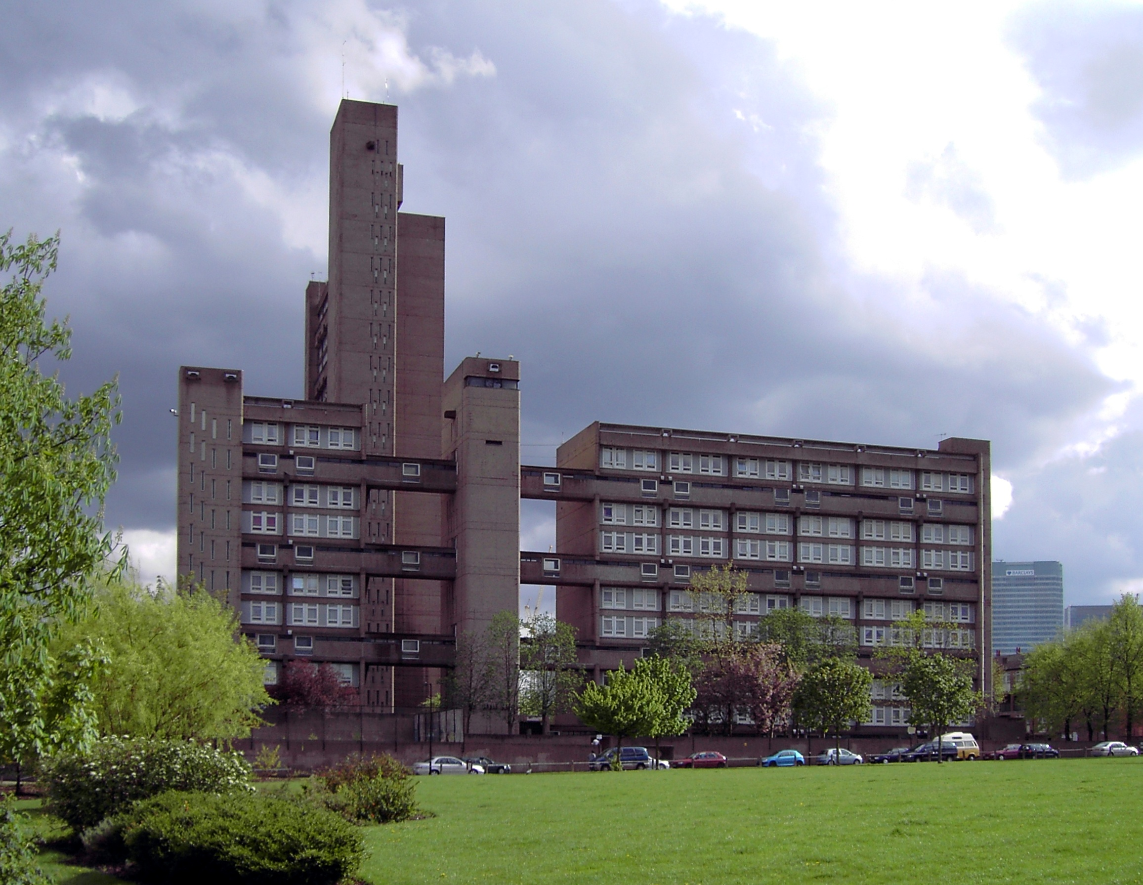 Carradale House, London. Balfron Tower can be seen behind.